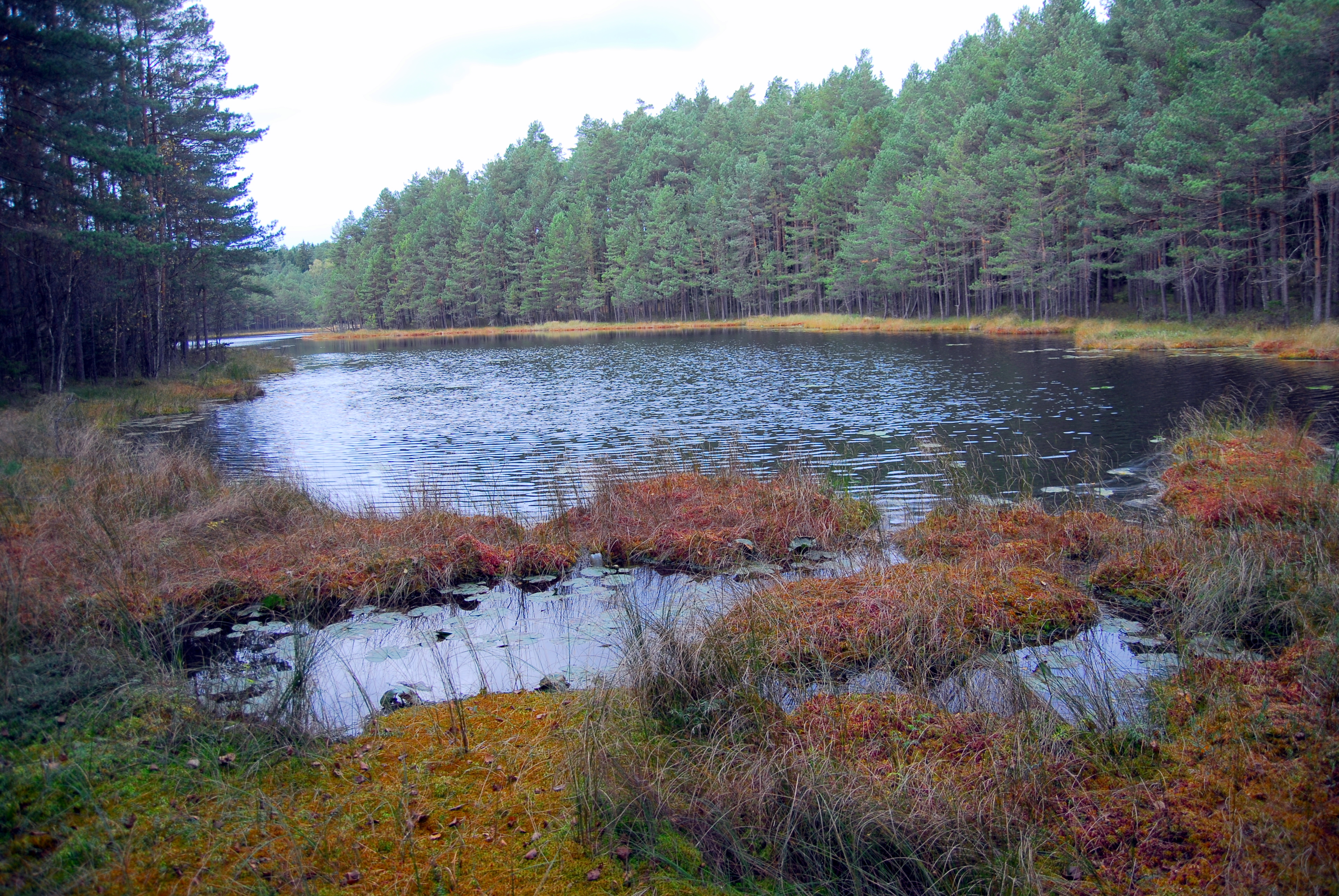 A dystrophic lake "Ślepe" ("Blind") in Kalejty Nature Reserve